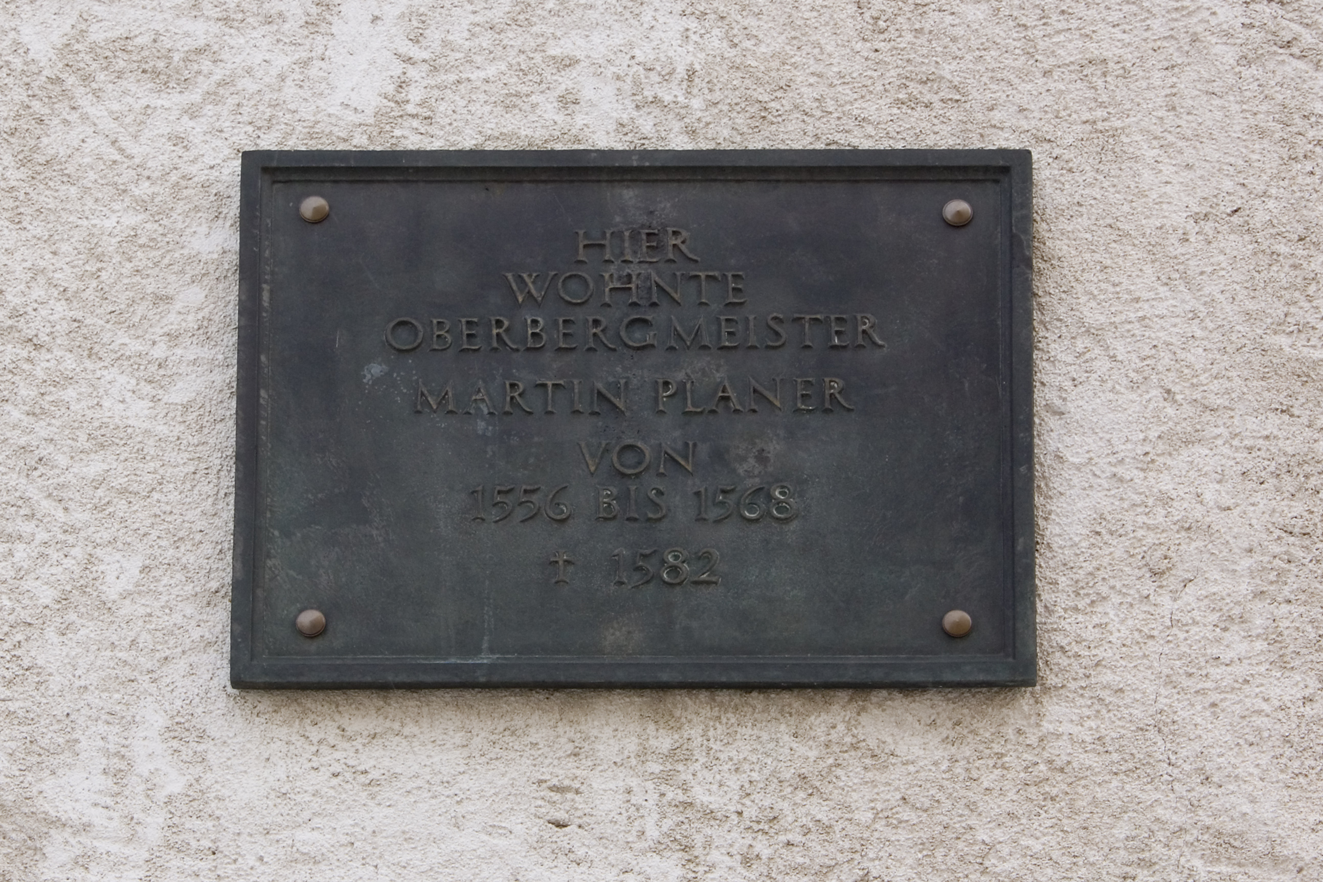 Martin Planer, commemorative plaque on his residence in Freiberg, Pfarrgasse 20